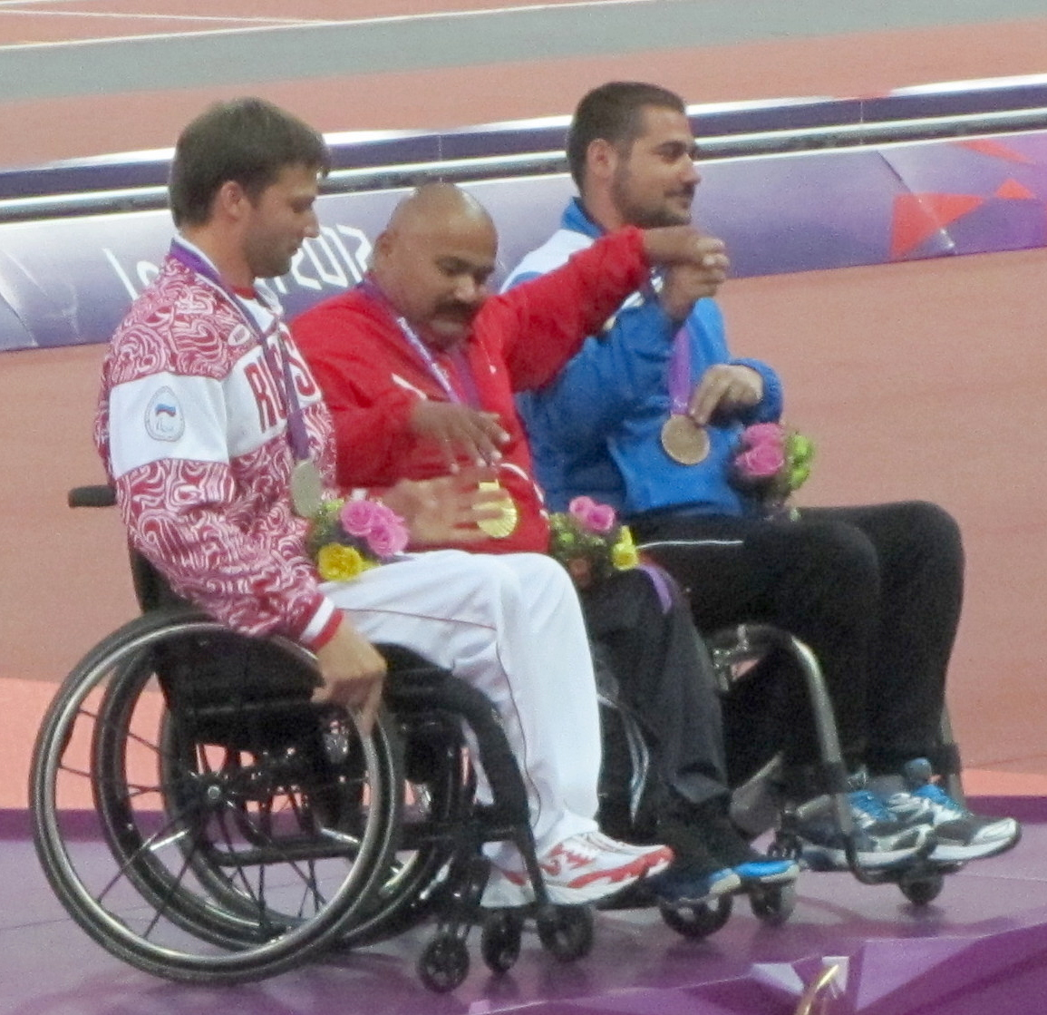 Gold: Luis Alberto Zepeda Felix (Mexico); Silver: Alexey Kuznetsov (Russia); Bronze: Manolis Stefanoudakis (Greece)